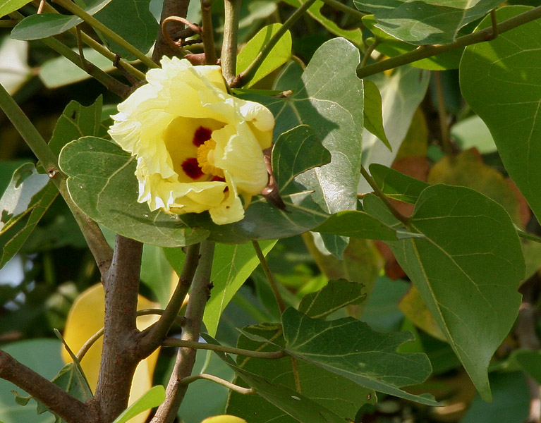 Indian Tulip tree, Bhendi, Paras Peepal, Portia tree, Umbrella tree, Pacific Rosewood, Suri, Surina or ranbhendi Thespesia populnea in Krishna Wildlife Sanctuary, Andhra Pradesh, India.